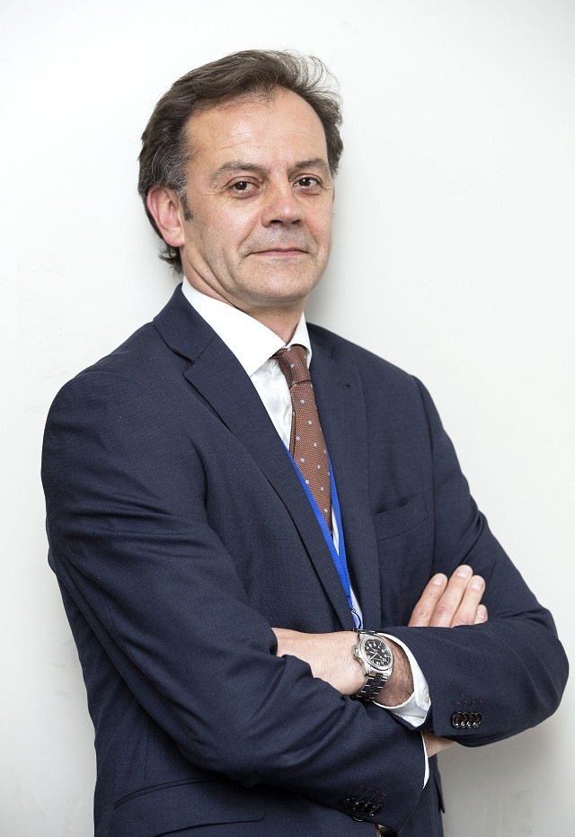 Manuel Barange - director of fisheries and aquaculture at the Food and Agriculture Organisation. Honorary professor at the University of Exeter.